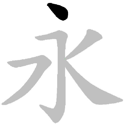 eight principles of the character Yong 永 (永字八法 Yǒngzì Bāfǎ) of the Chinese calligraphy